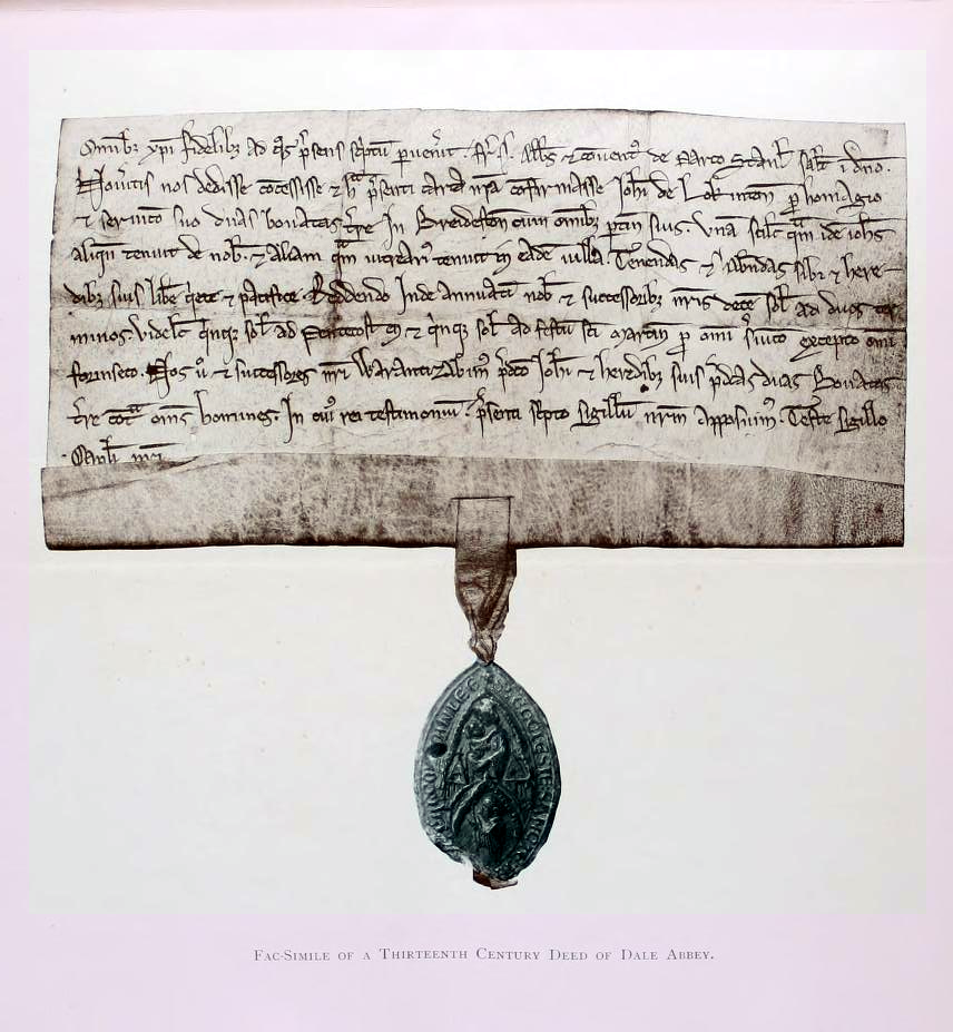 13th century deed and seal of Dale Abbey, Derbyshire, reproduced in Cox, J. Charles (1901). "The Chartulary of the Abbey of Dale". Journal of the Derbyshire Archaeological and Natural History Society 24: 150-1. Bemrose and Sons. Retrieved on 22 August 2019. The seal bears the inscription: S. Ecclesie Sancte Marie de Parco Stanlee. A half-length Madonna and Child and a half-length abbot praying beneath a trefoiled arch.